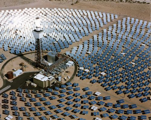 Solar One power plant in Barstow, Mojave Desert, California. Much more large photo (1 600 x 1 272 px) is here (direct link).